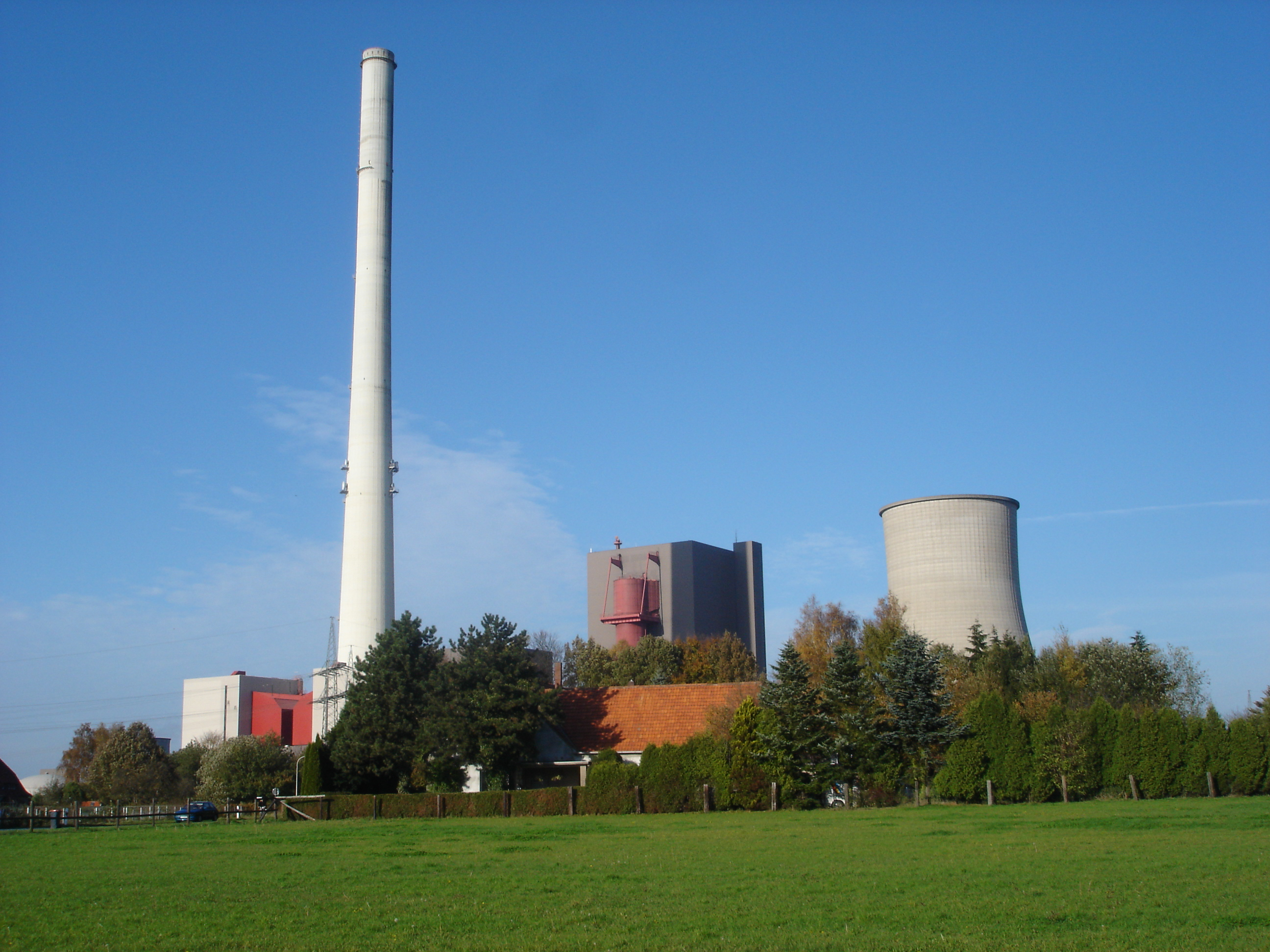 RWE powerplant in the city of Ibbenbüren